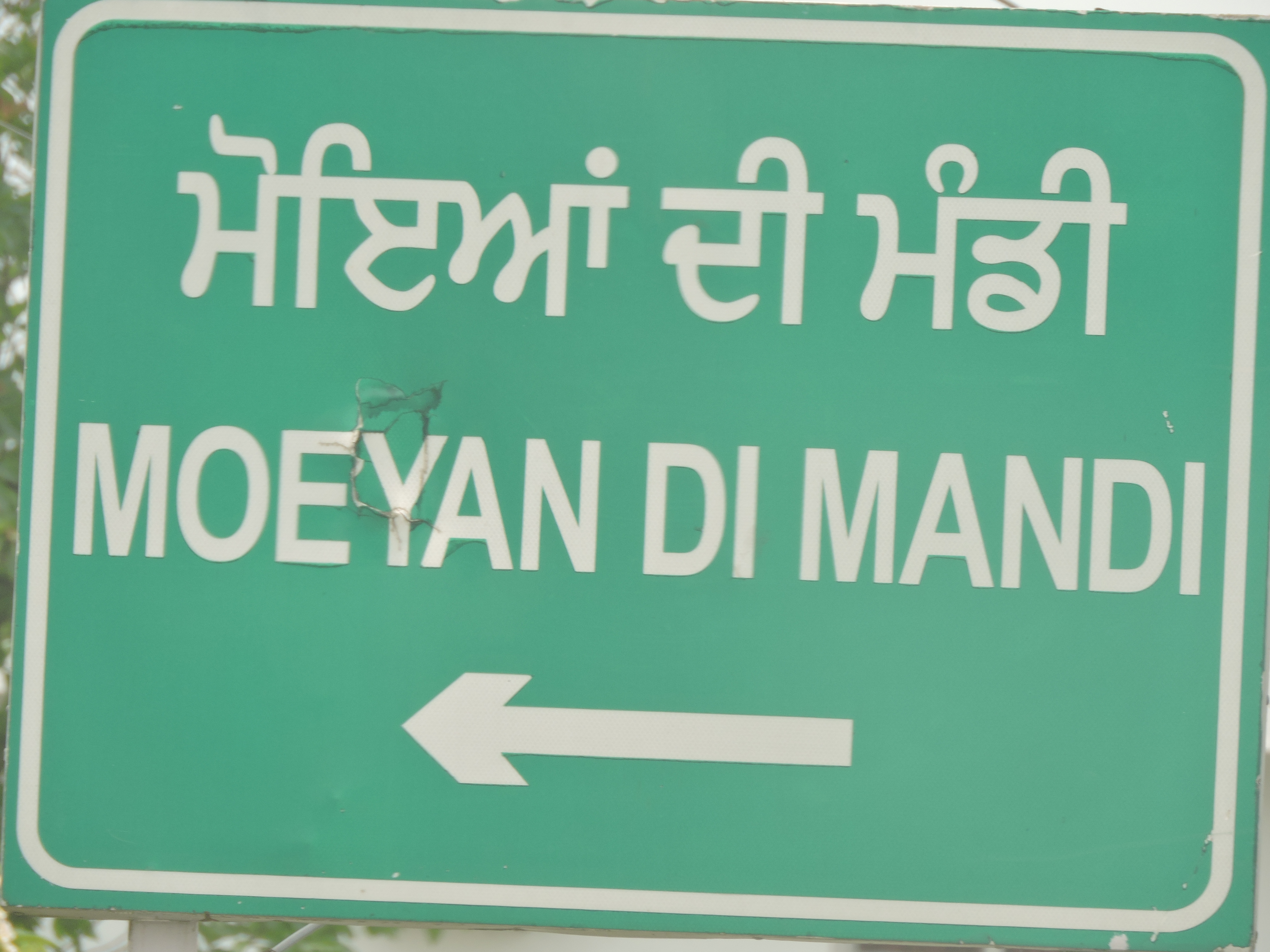 Moyan Di Mandi (Dera0 , Anandpur Sahib Anadpur Sahib ,Punjabਪੰਜਾਬੀ: ਮੋਇਆਂ ਦੀ ਮੰਡੀ (ਡੇਰਾ ), ਅਨੰਦਪੁਰ ਸਾਹਿਬ , ਪੰਜਾਬ